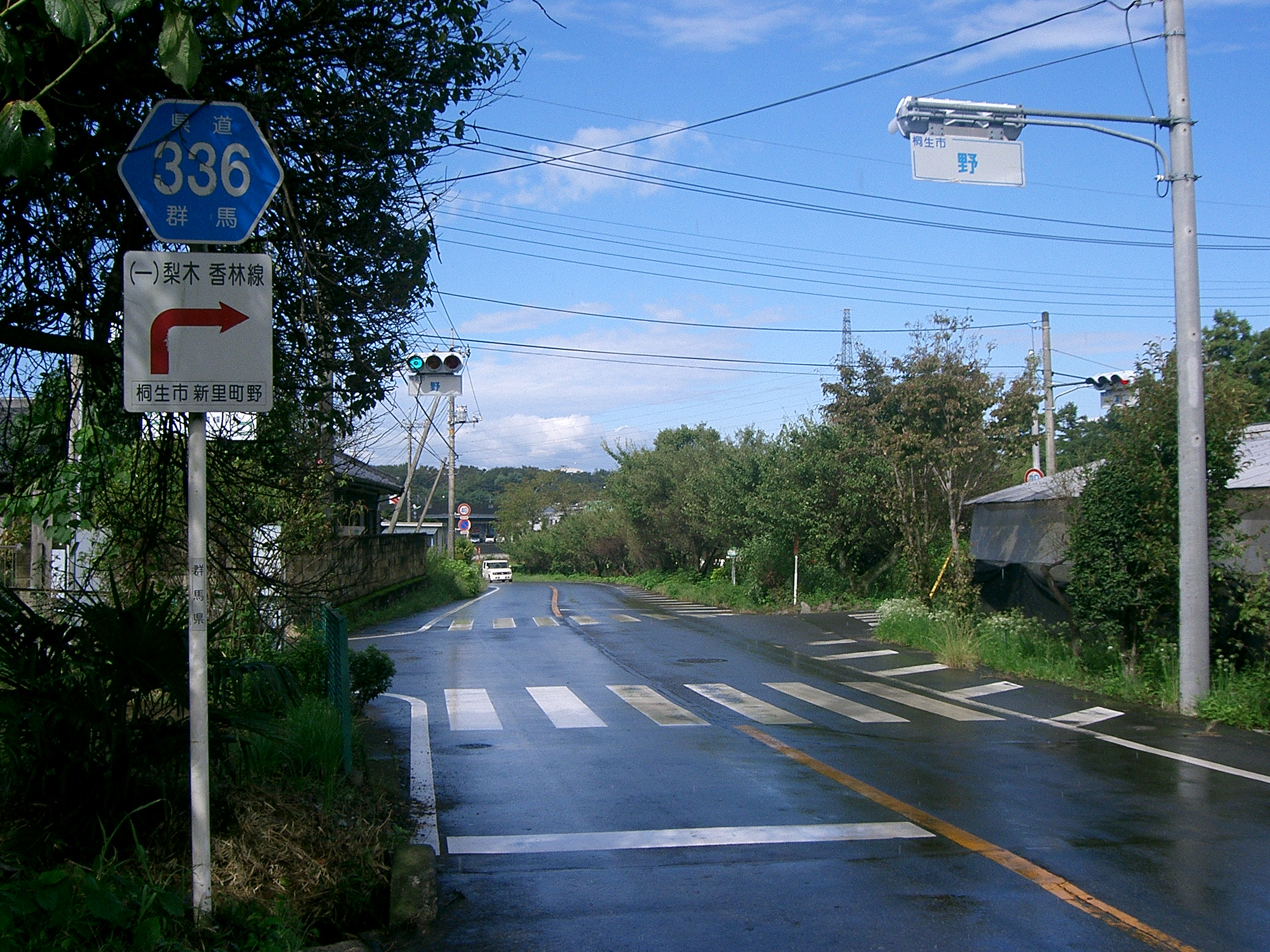 Gunma prefectural road 336 Nashiki-Koubayashi line. Looking west from No intersection, Niisato-cho, Kiryu city.